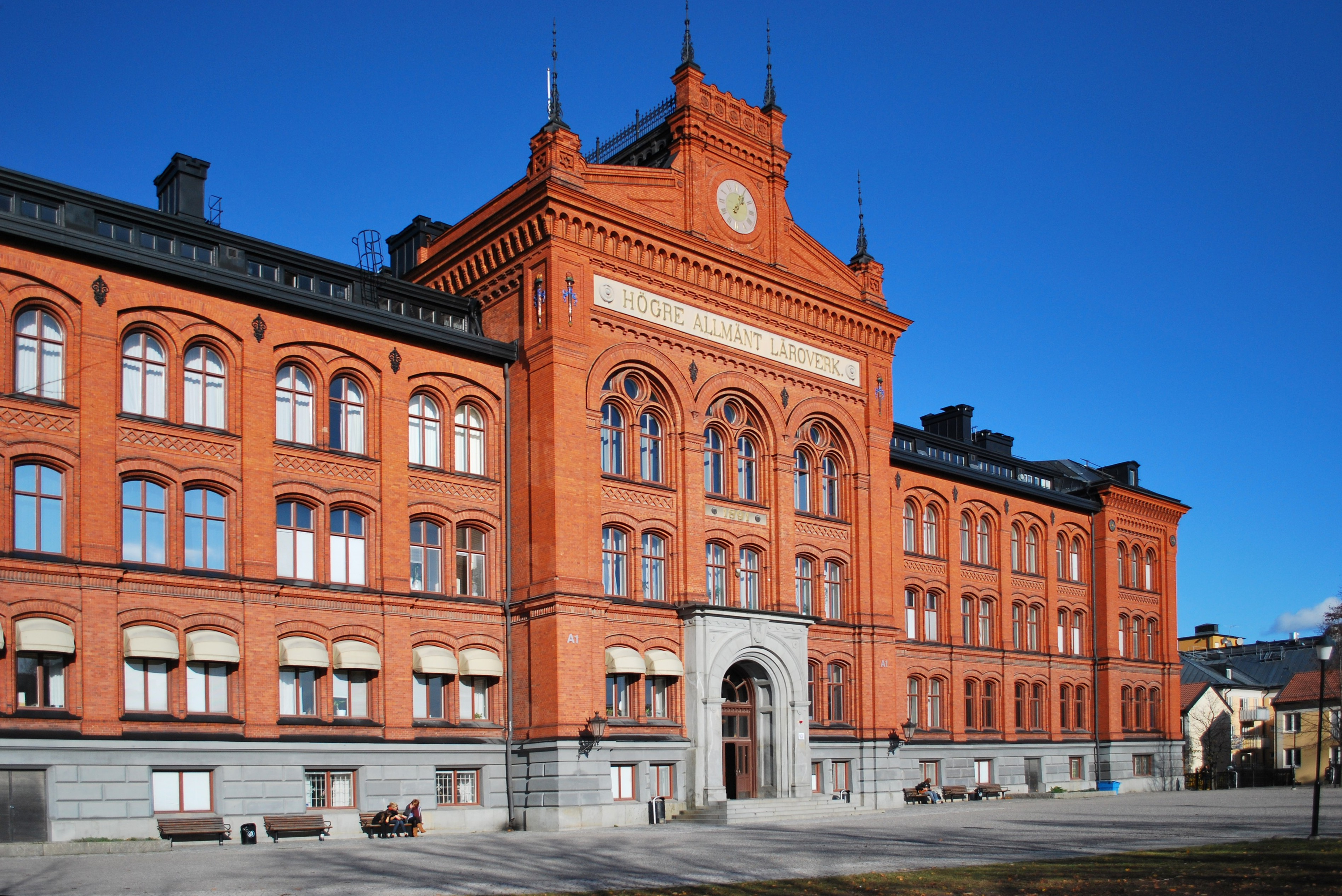 Södra Latins gymnasium, Kvarngatan, Södermalm, Stockholm